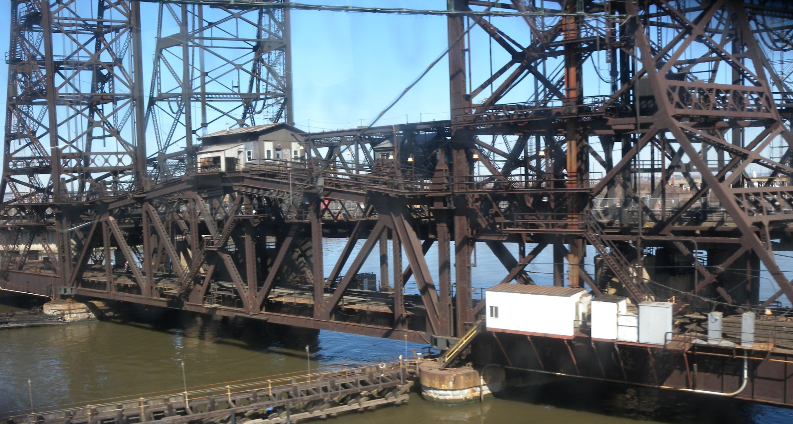 Looking northwest on a sunny midday from a PATH train, at the Harsimus Branch freight rail lift bridge across Hackensack River, with Newark Avenue Wittpenn Bridge immediately behind it.